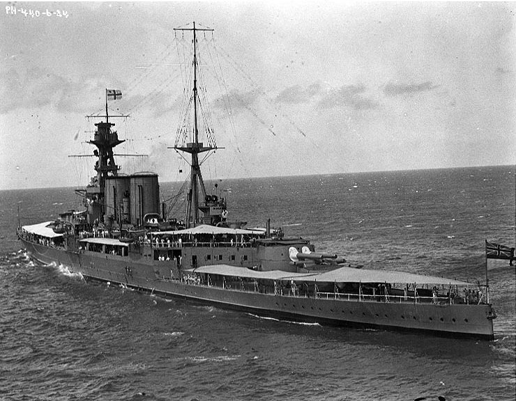 HMS Hood off Honolulu, 12 June 1924.